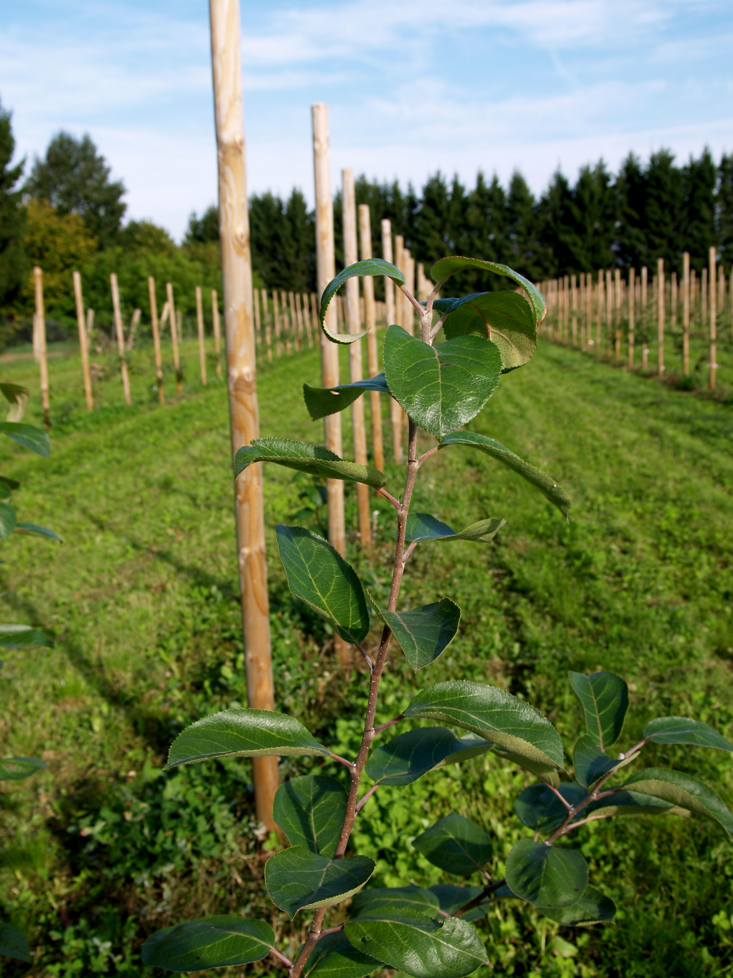 Polli Horticultural Research Centre